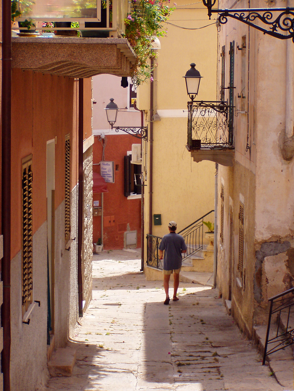 Street in La Maddalena island off the North coast of Sardinia, Italy.